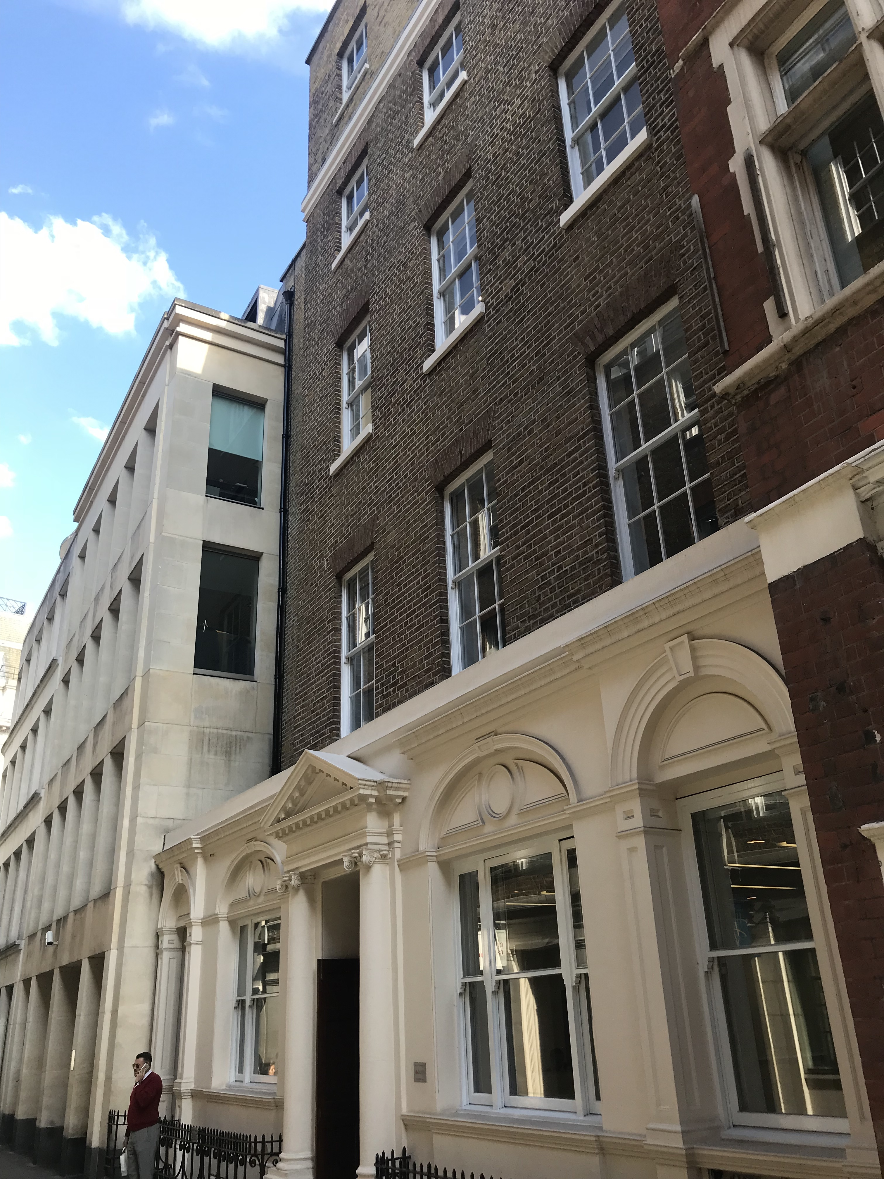 11, Ironmonger Lane Ec2 Wikidata has entry Q26487885 with data related to this item.